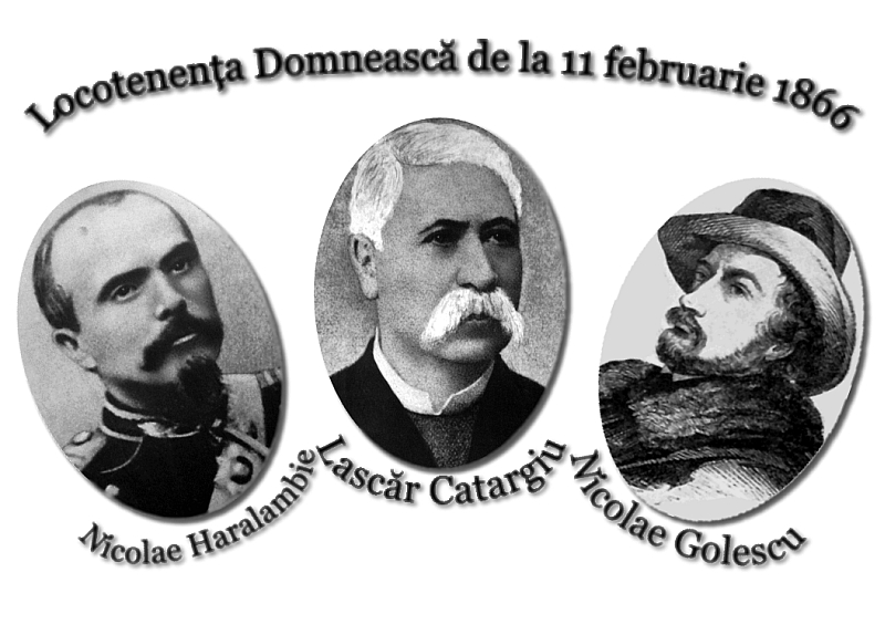 Collage of three pictures, representing the members of the regency that leaded Romania in 1866, until Carol I came to the Throne.